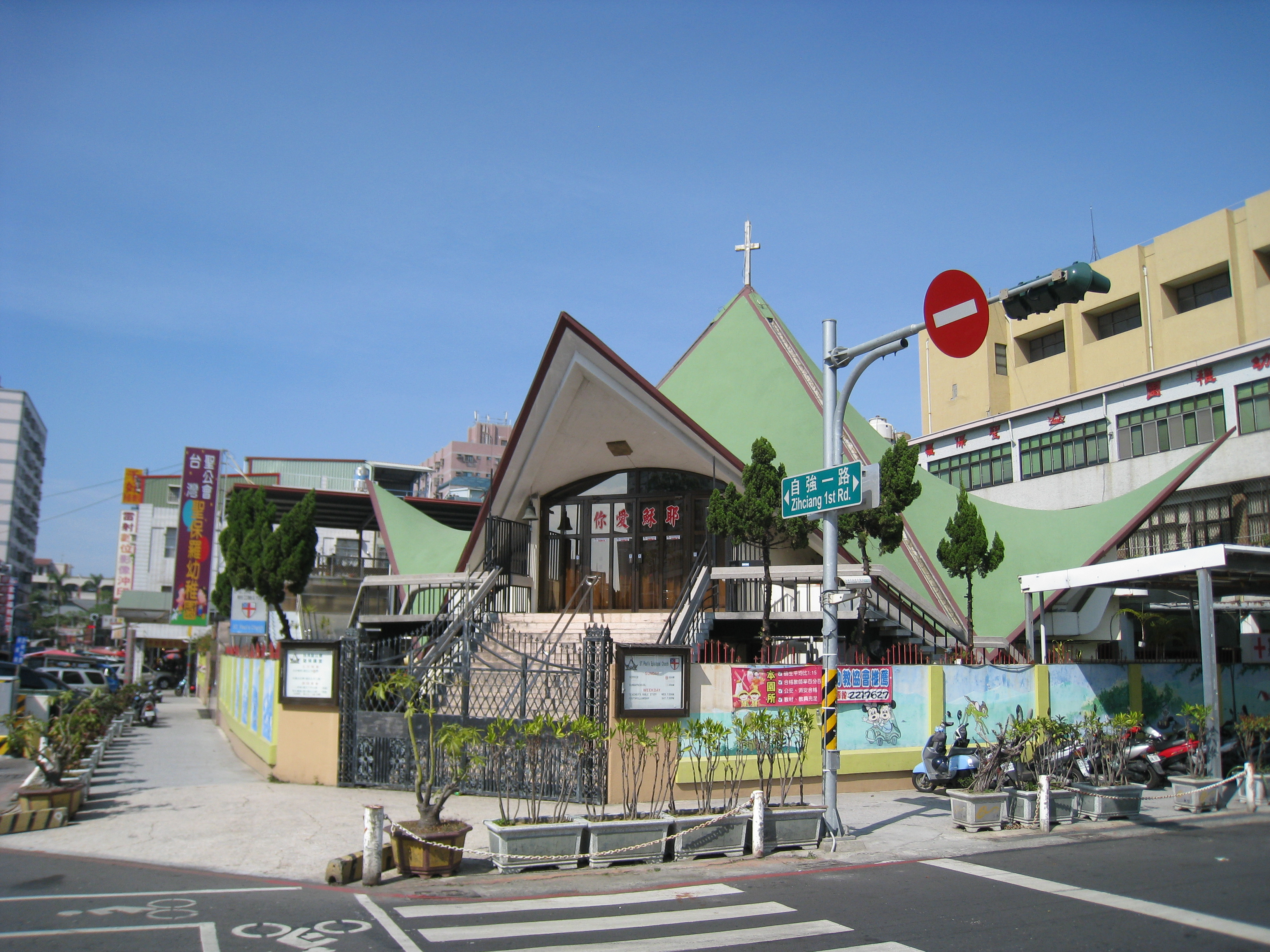 St Paul's Church, Kaohsiung (of the Episcopal Diocese of Taiwan)